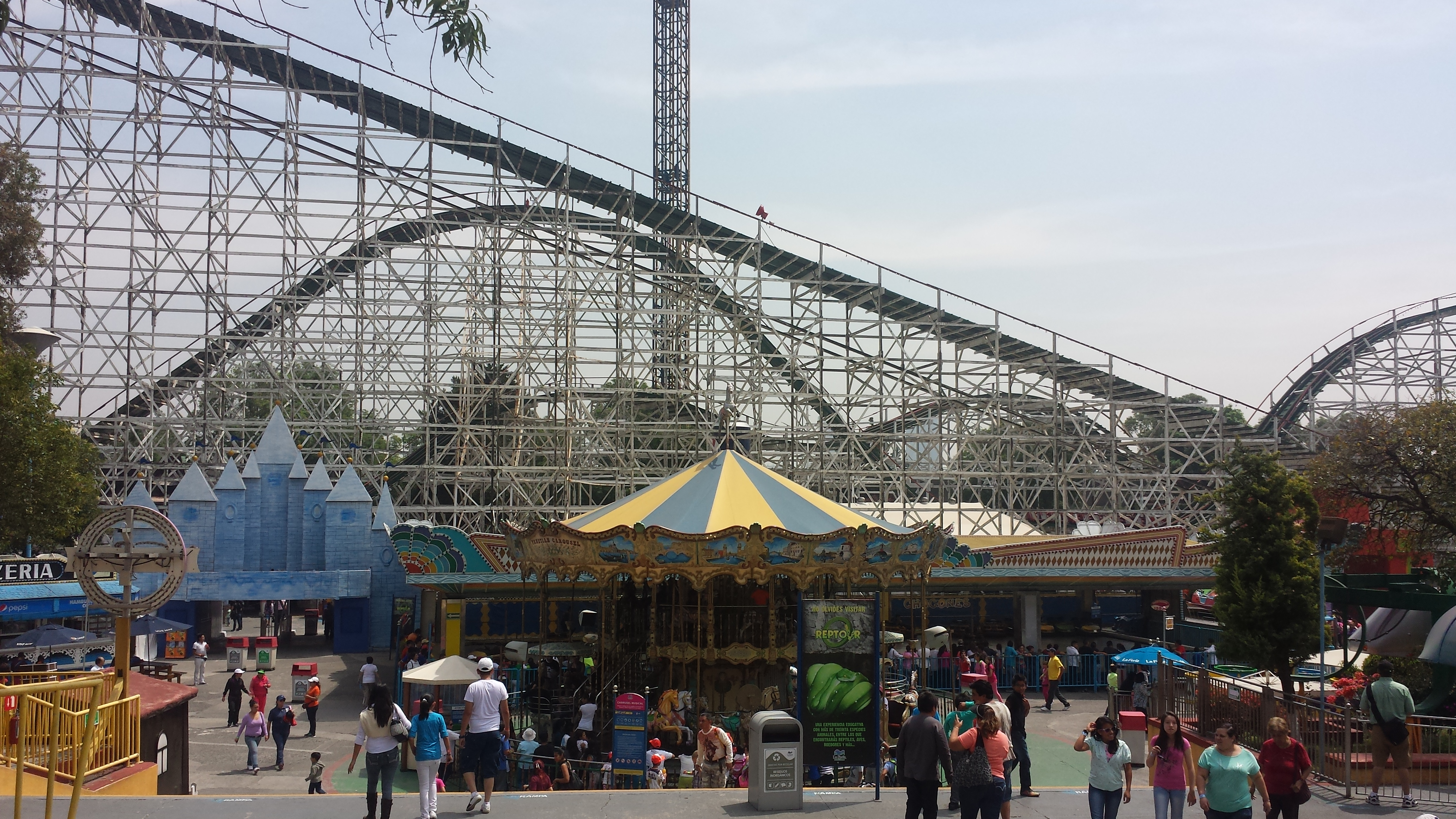 La Feria de Chapultepec Mágico.